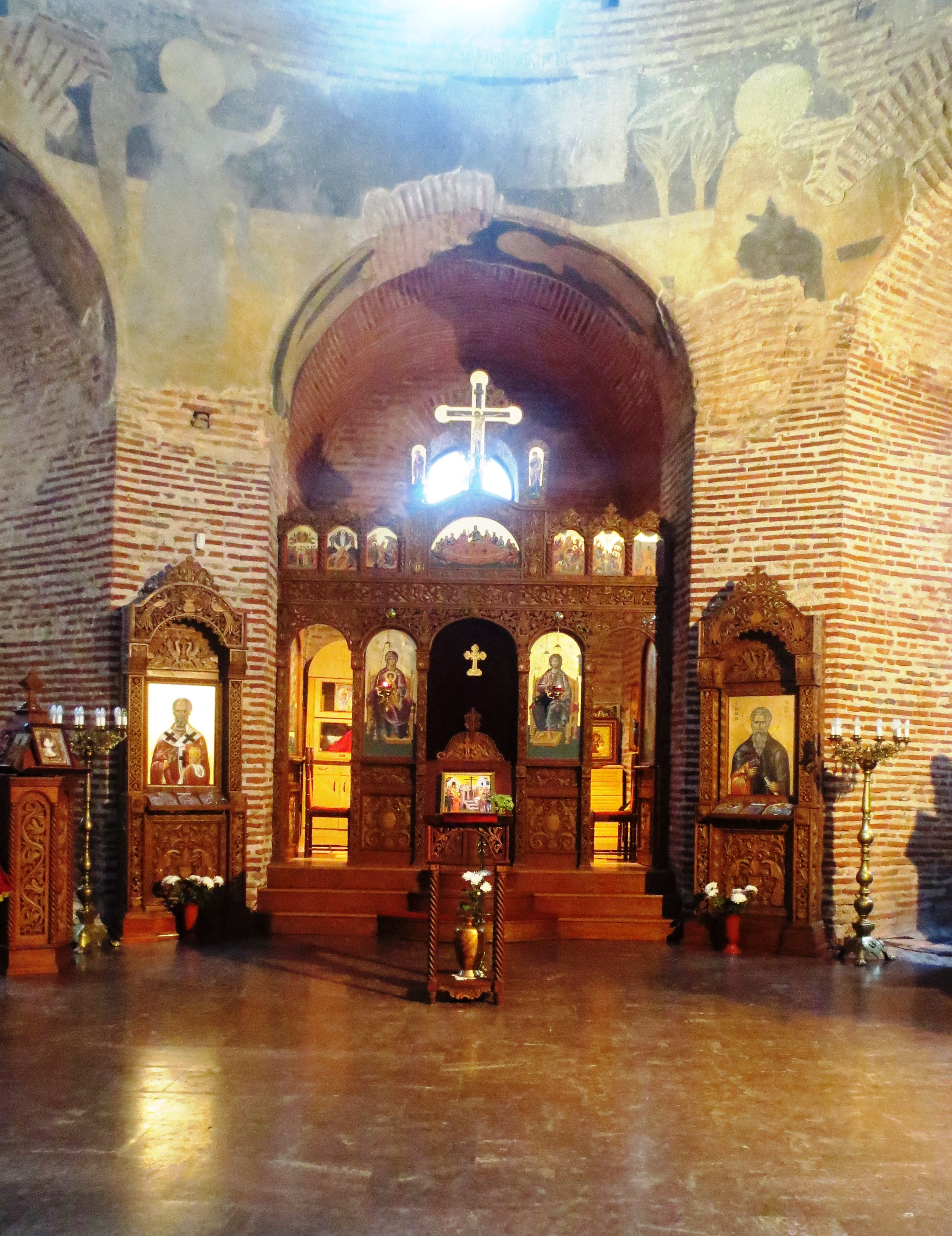 St Georg Rotunda Church is located inside the backyard of the presidential Palace of Bulgaria, with excavated parts of old Serdica. The Church is from early Middle Ages.